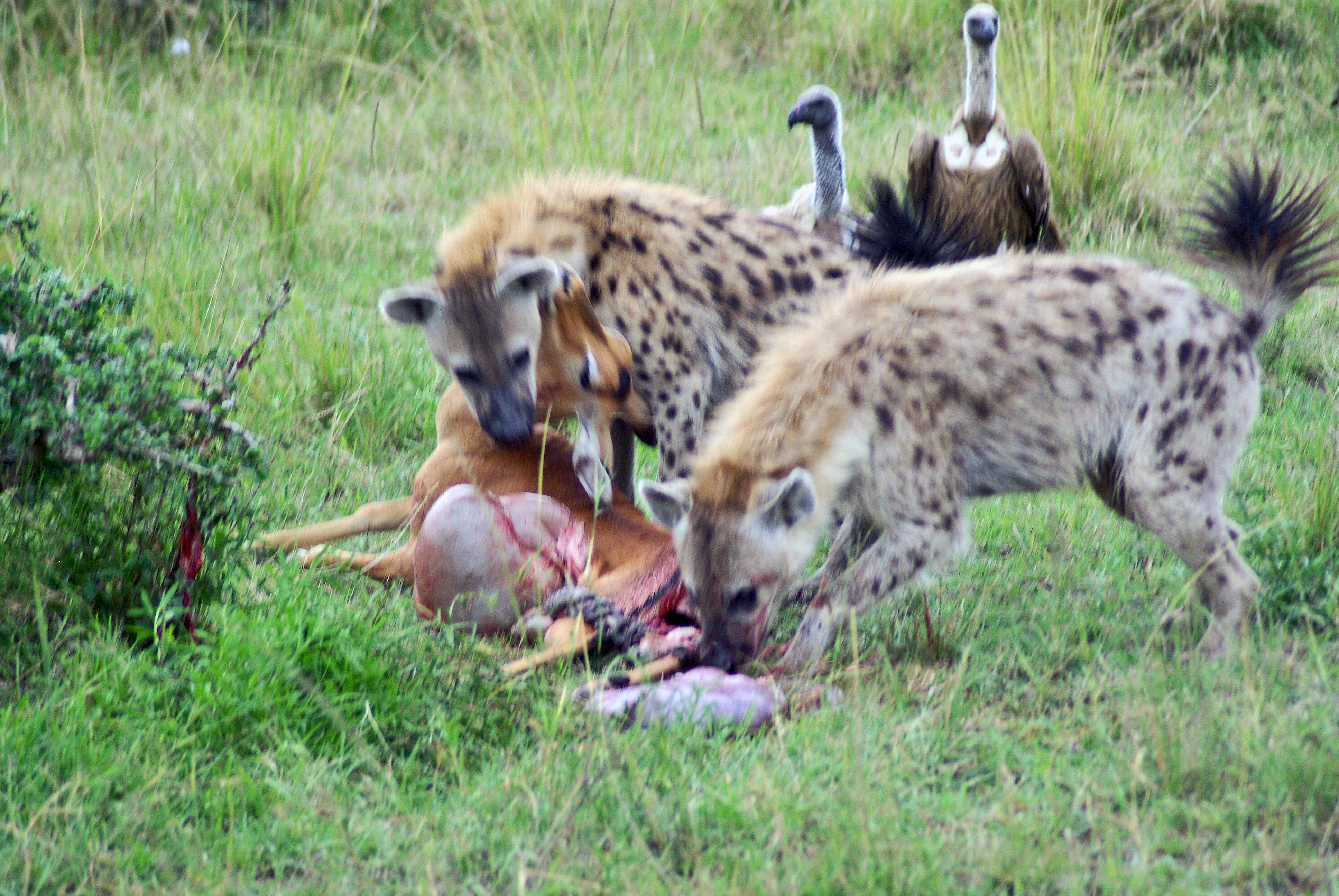 Spotted Hyenas, Crocuta crocuta, at carcass of an Impala, Aepyceros melampus, that they had stolen from a Cheetah, Acinonyx jubatus, at Masai Mara National Park, Kenya. See Image:Cheetah with impala kill.jpg and Image:Hyena arriving.jpg. The time stamp is 10 hours too early.